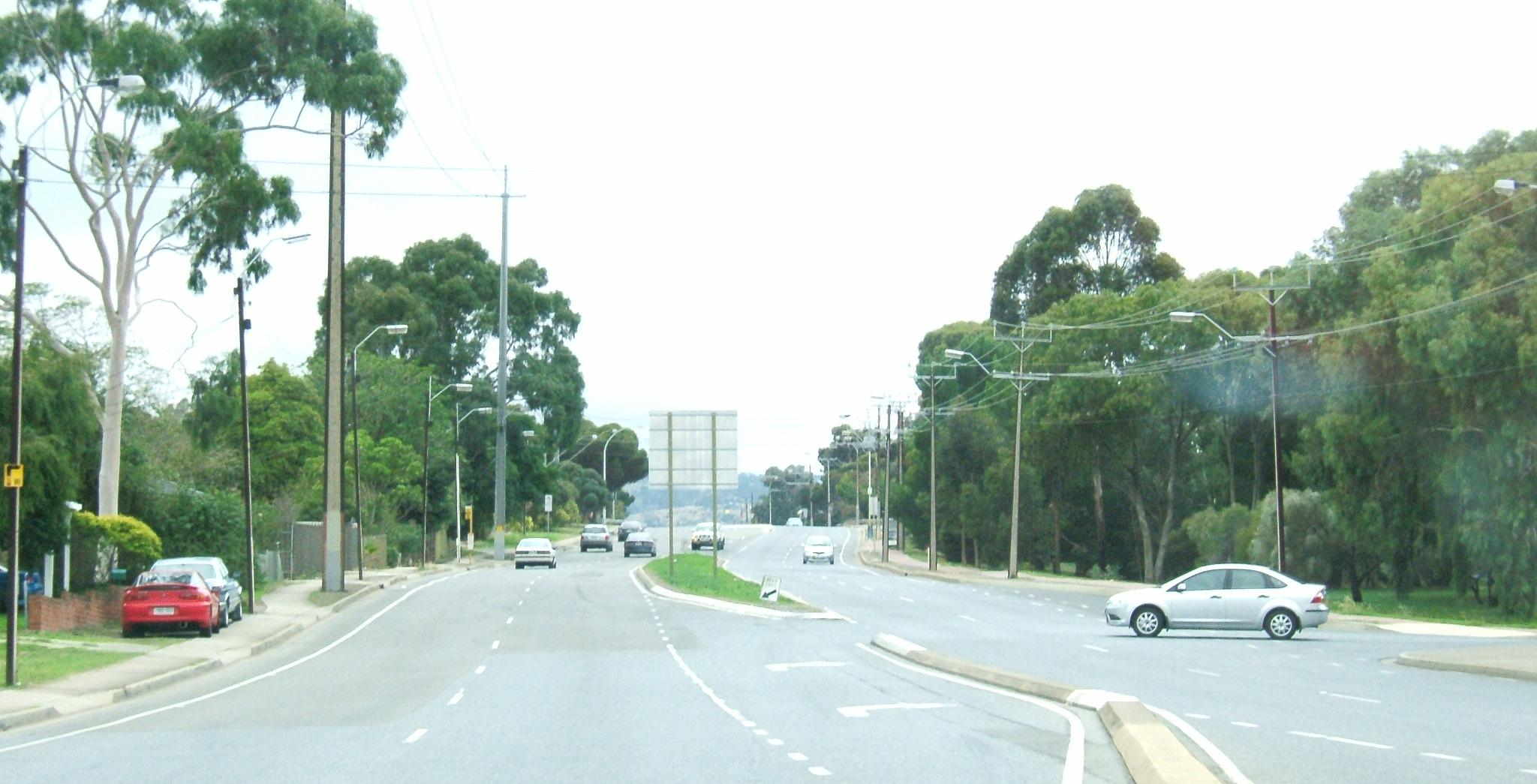 Grand Junction Road passing through Holden Hill, Adelaide